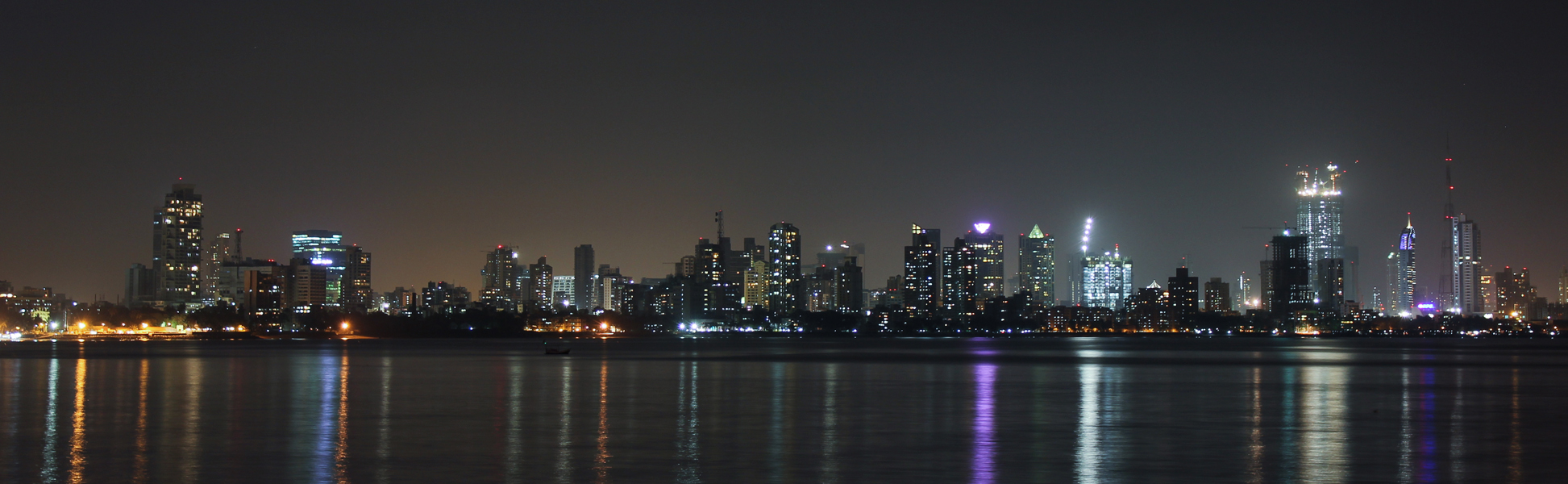 Skyline of Dadar and Worli, as seen from Bandra Reclamation.